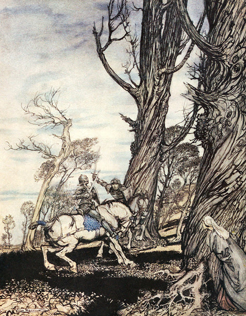 "How Sir Launcelot slew the knight Sir Peris de Forest Savage that did distress ladies, damosels, and gentlewomen." From The Romance of King Arthur (1917). Abridged from Malory's Morte d'Arthur by Alfred W. Pollard. Illustrated by Arthur Rackham. This edition was published in 1920 by Macmillan in New York.